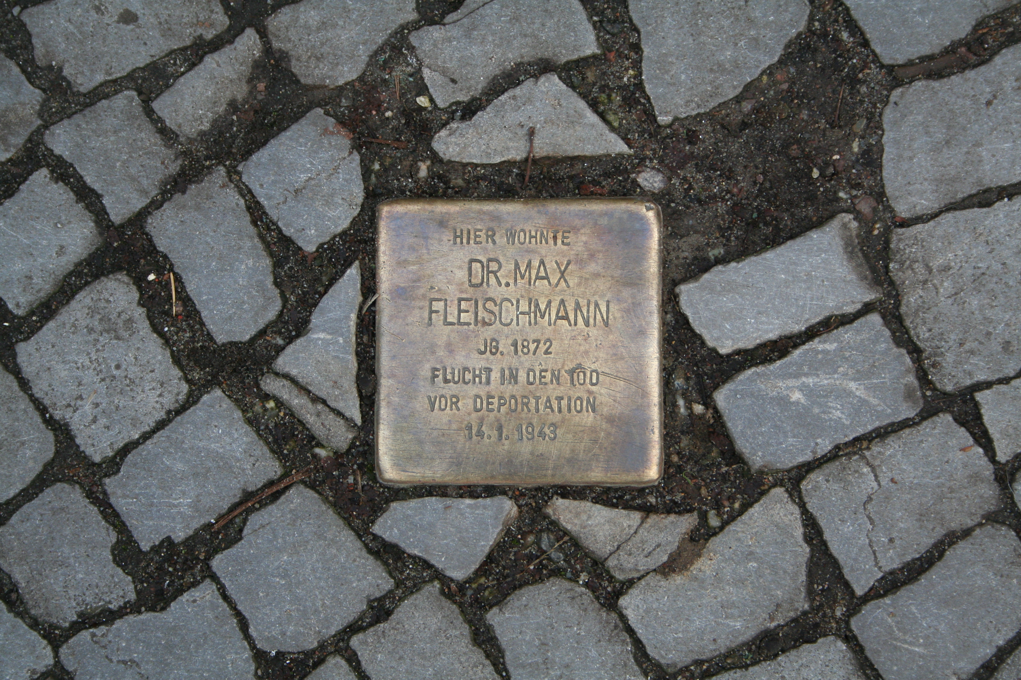 Stolperstein at Halle (Saale) for Prof. Max Fleischmann, Rathenauplatz 14